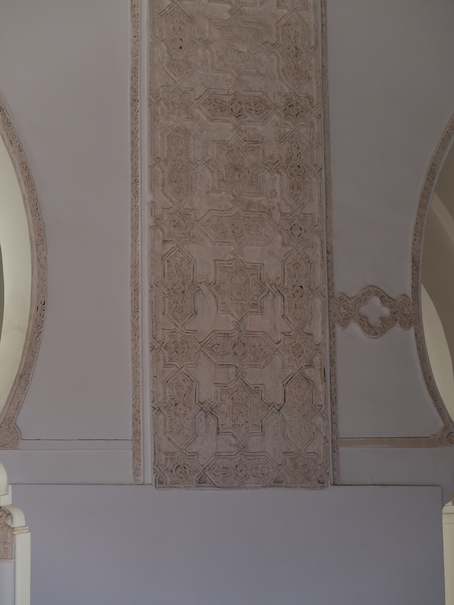 Glimpse of the stucco decoration (most likely Saadian) around some of the arches inside the Kasbah Mosque of Marrakech.